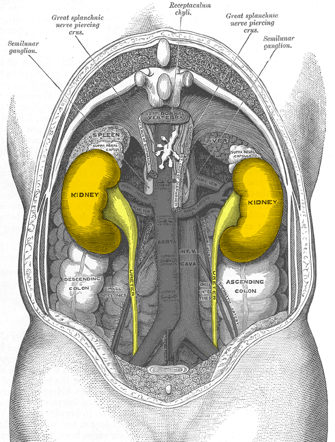 The relations of the viscera and large vessels of the abdomen. (Seen from behind, the last thoracic vertebra being well raised.) Kidneys and ureters are colored.